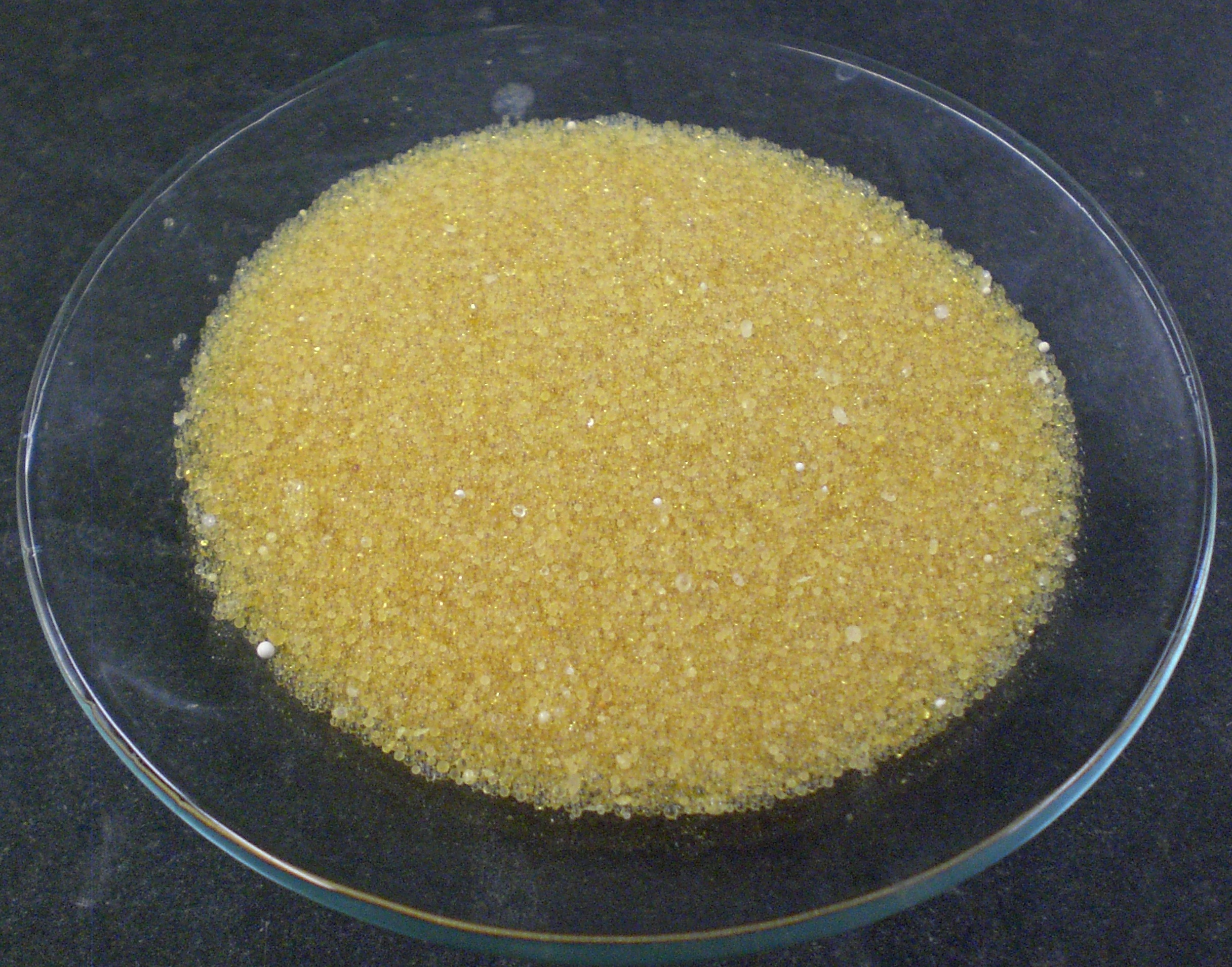 Amberlite ion-exchange resin (Mallinckrodt Amberlite IRA-401: RN+(CH3)3 Cl– 20–50 mesh polystyrene anion-exchange resin)